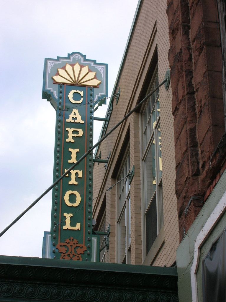 An image of the Capitol Theater in Moncton.